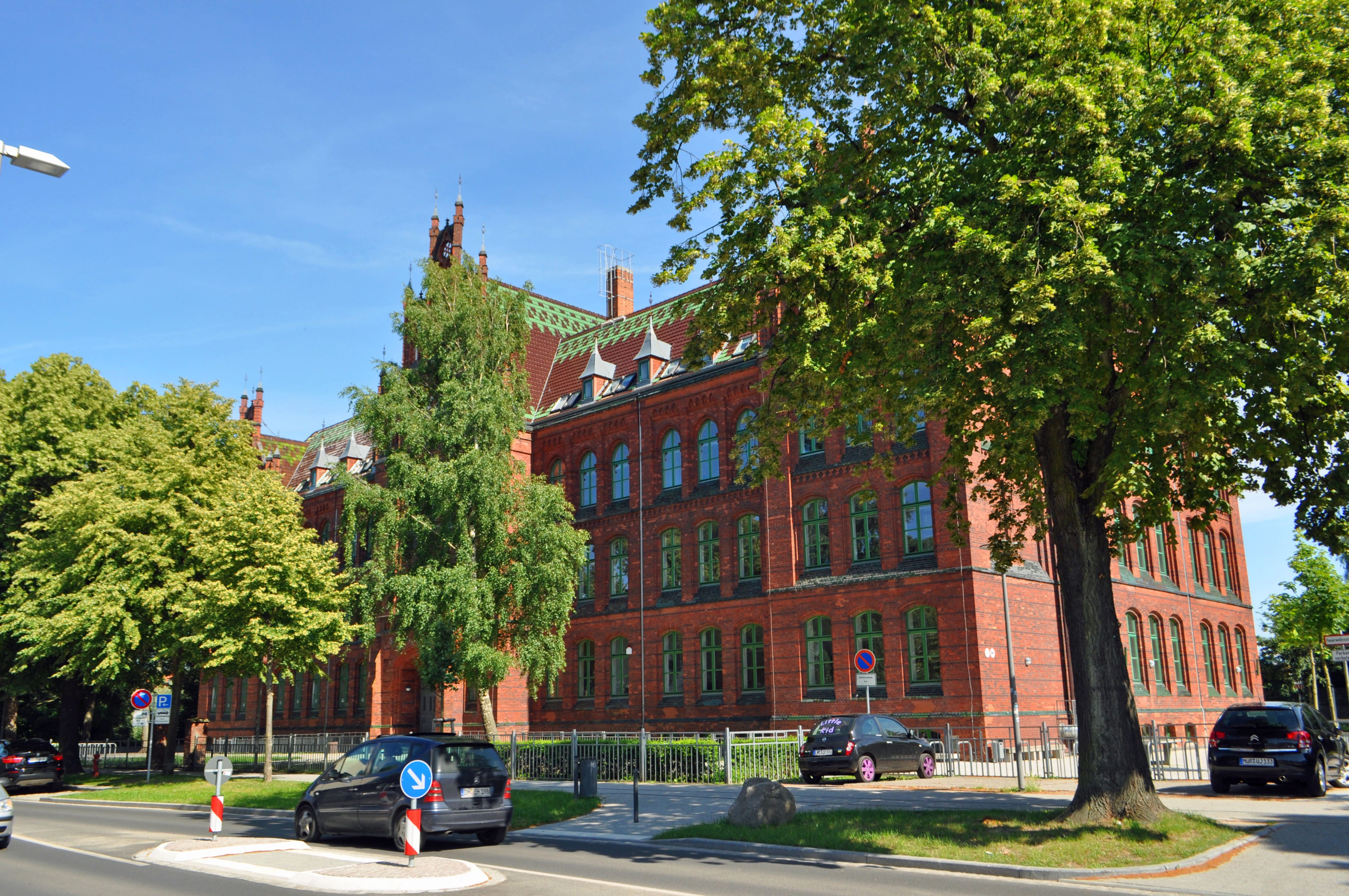 Frankenwall 25 (Stralsund) This is a photograph of an architectural monument.